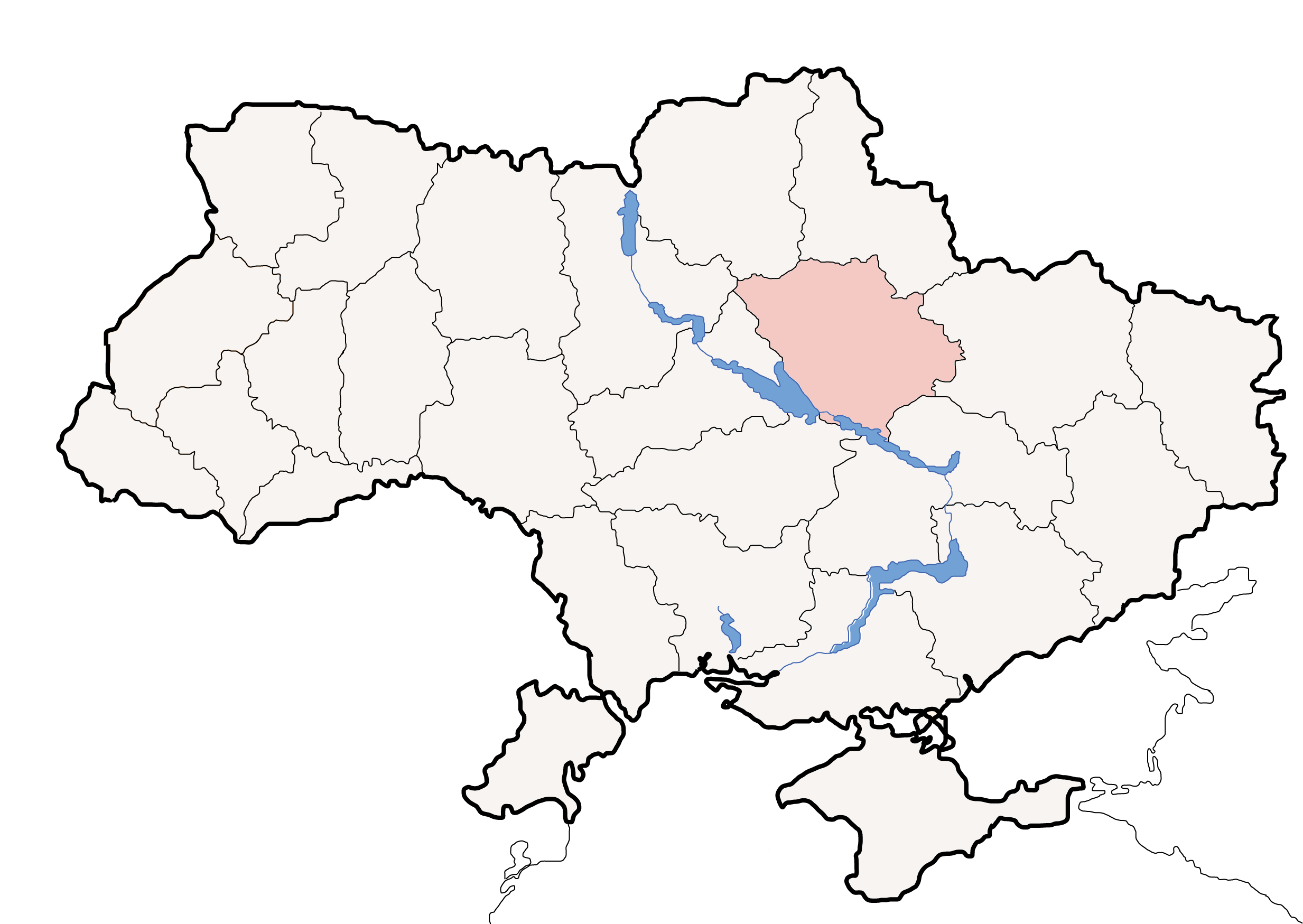 Political map of Ukraine, highlighting Poltava Oblast